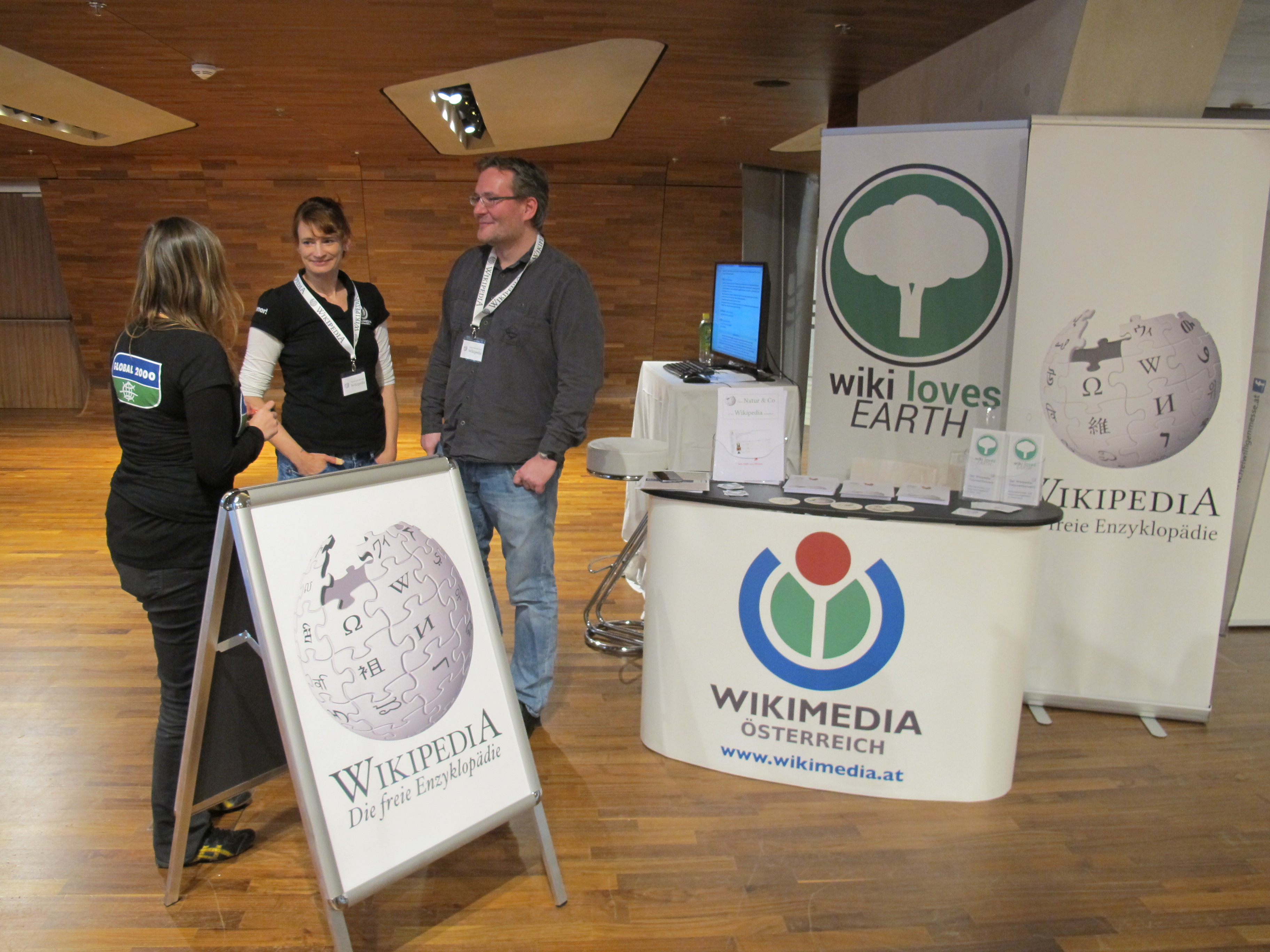 exhibition „Young Volunteers“ 2016 in Vienna University of Economics and Business